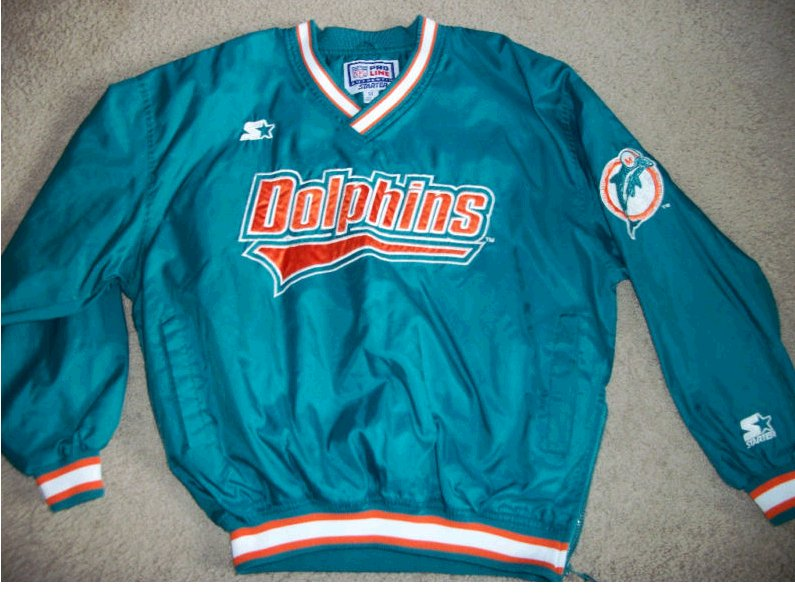 Vintage Dolphins Starter jacket